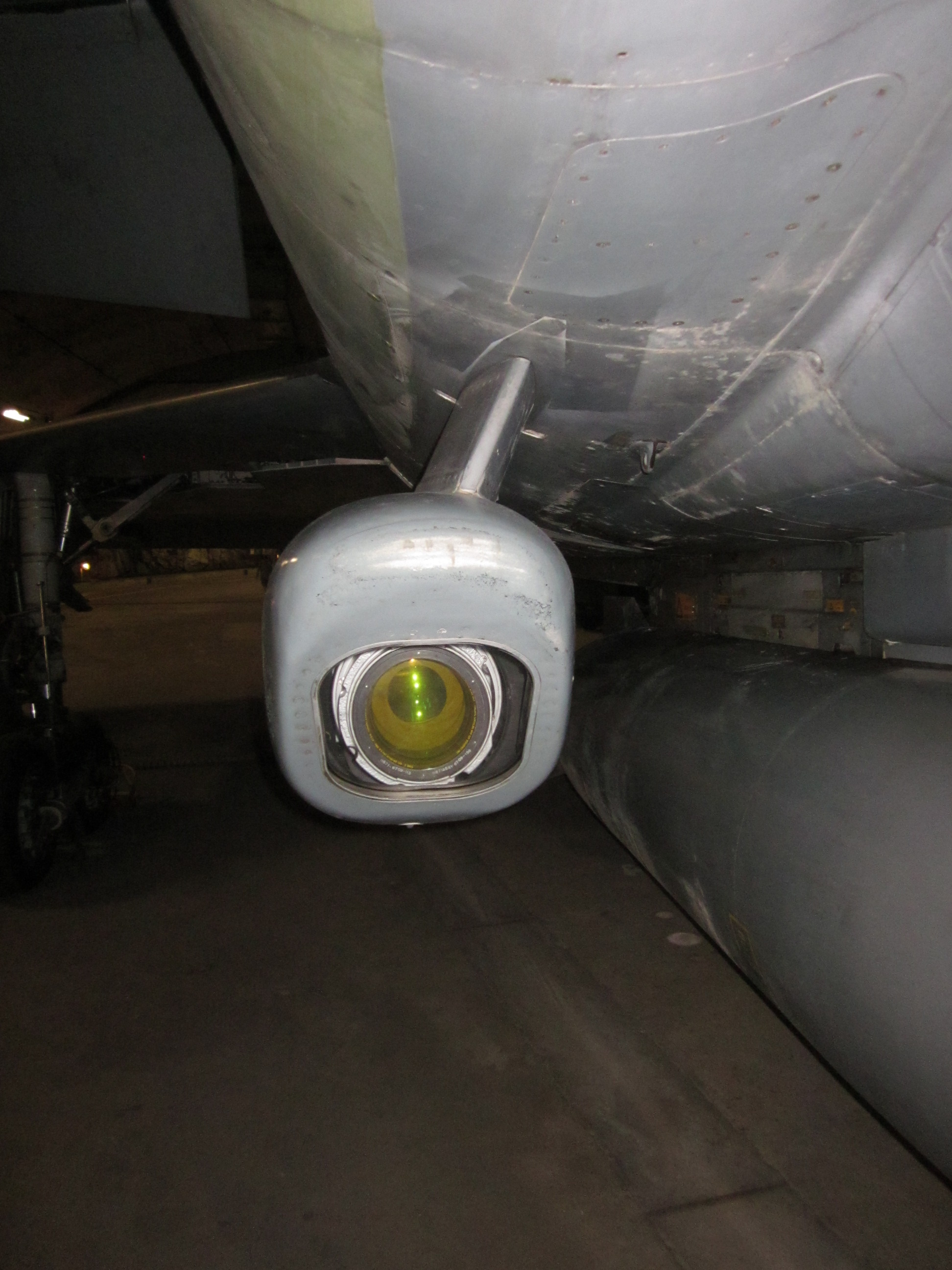 Camera of a Saab AJSH 37 Viggen at the museum Aeroseum, the mountain hangar of the former Swedish Airforce wing F 9 Säve.